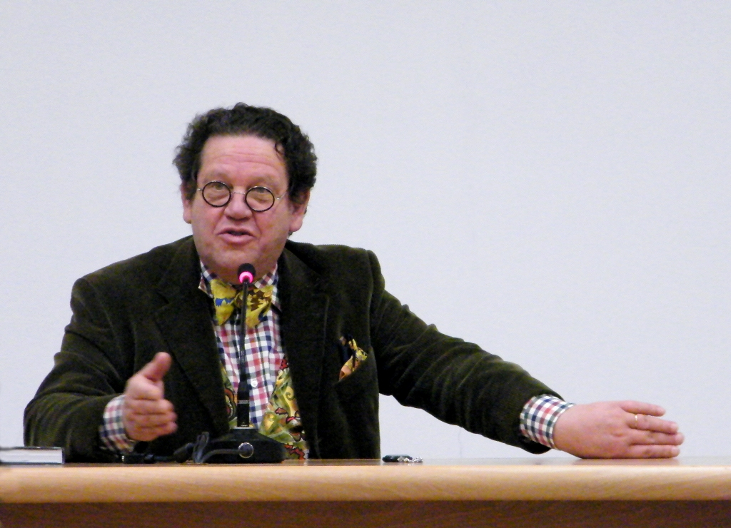 Philippe Daverio. Capo di Ponte, Val Camonica